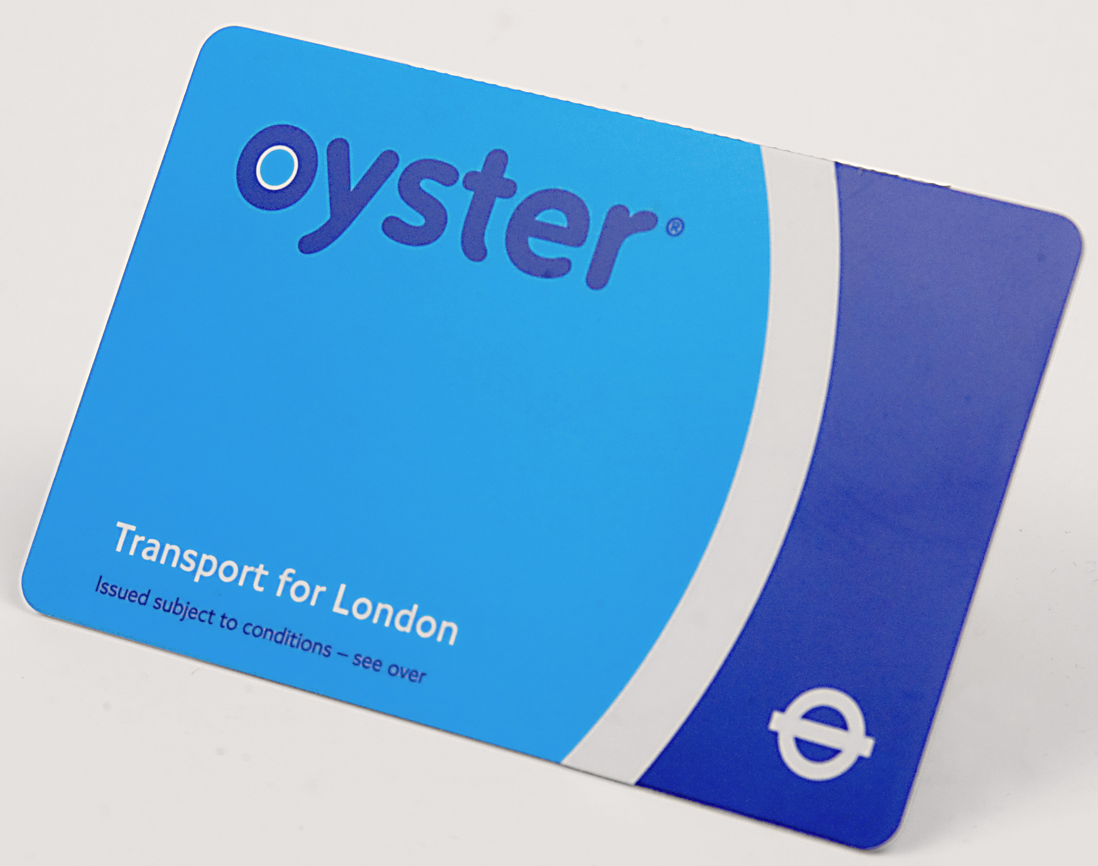 Oystercard for the London Underground